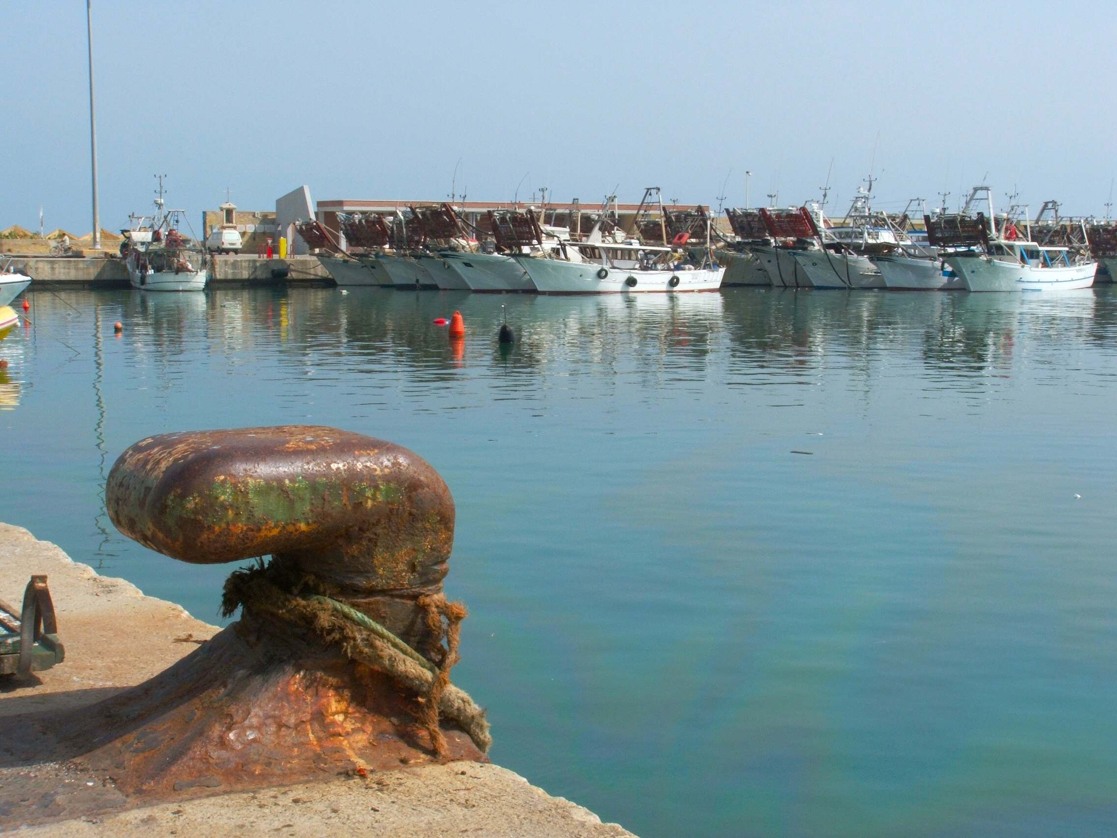 Giulianova (TE), Italy - View of port